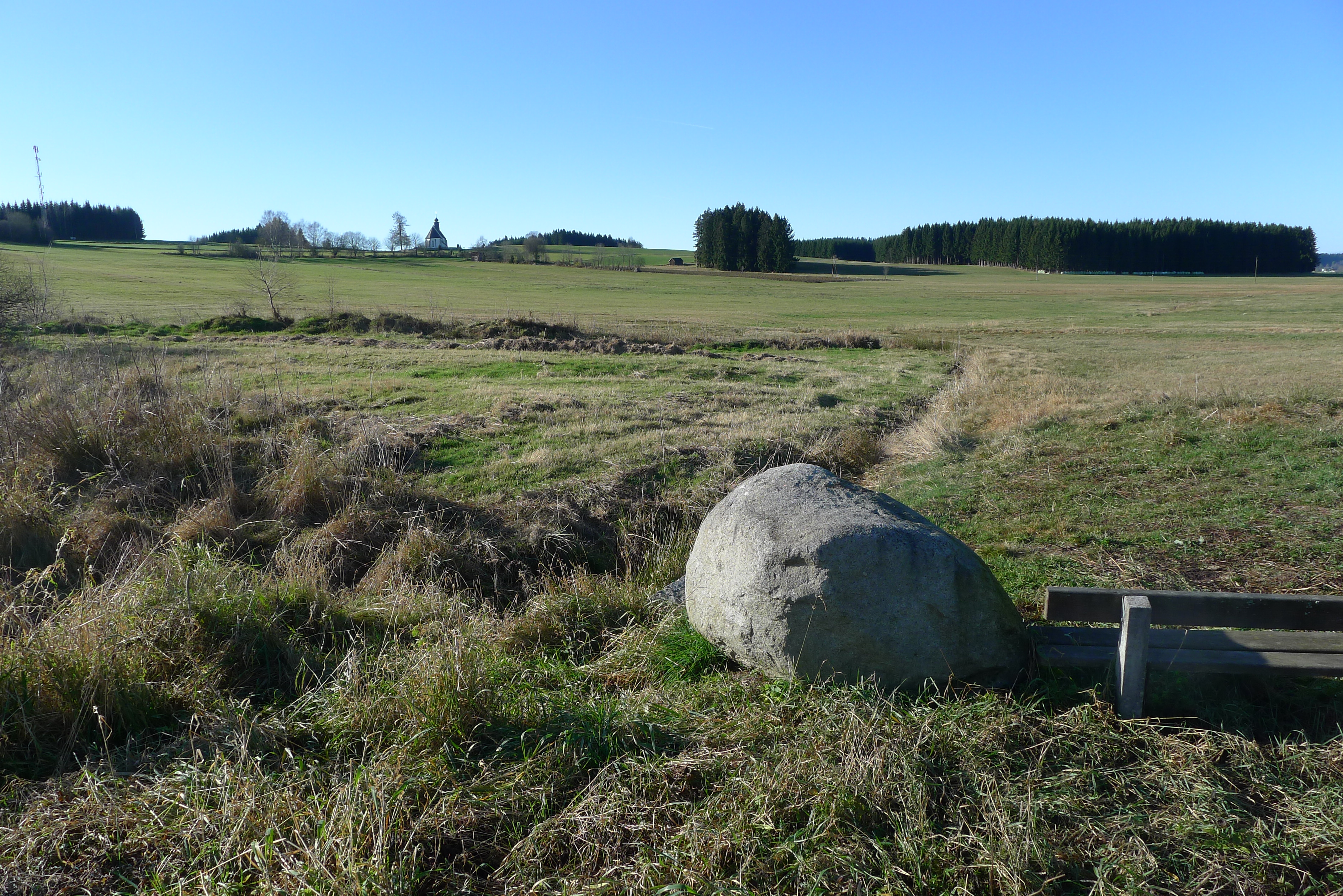 spring of Feldaist river in Grünbach/Upper Austria, St. Michael's Church in the background